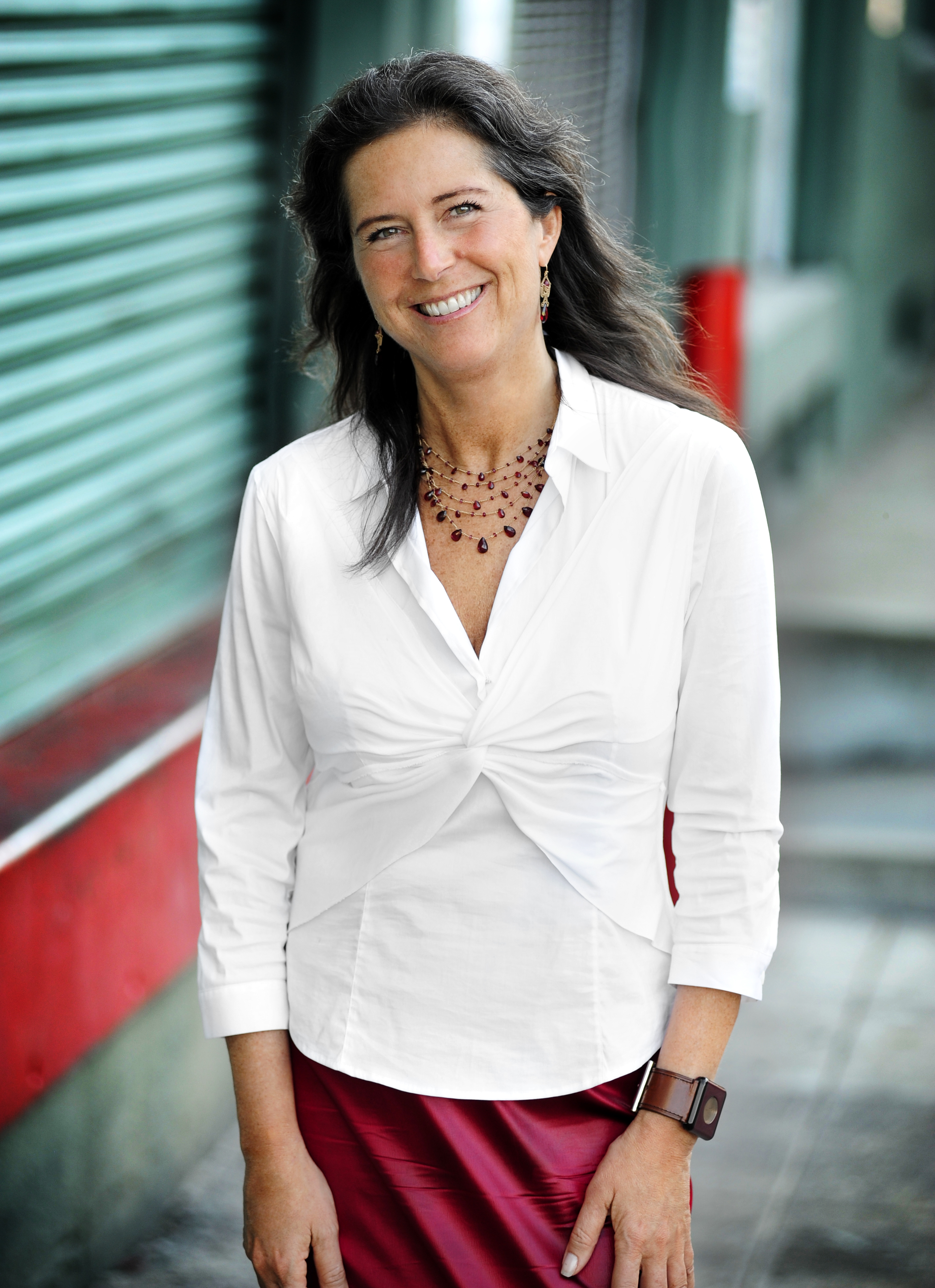 A photo of Ivy Ross